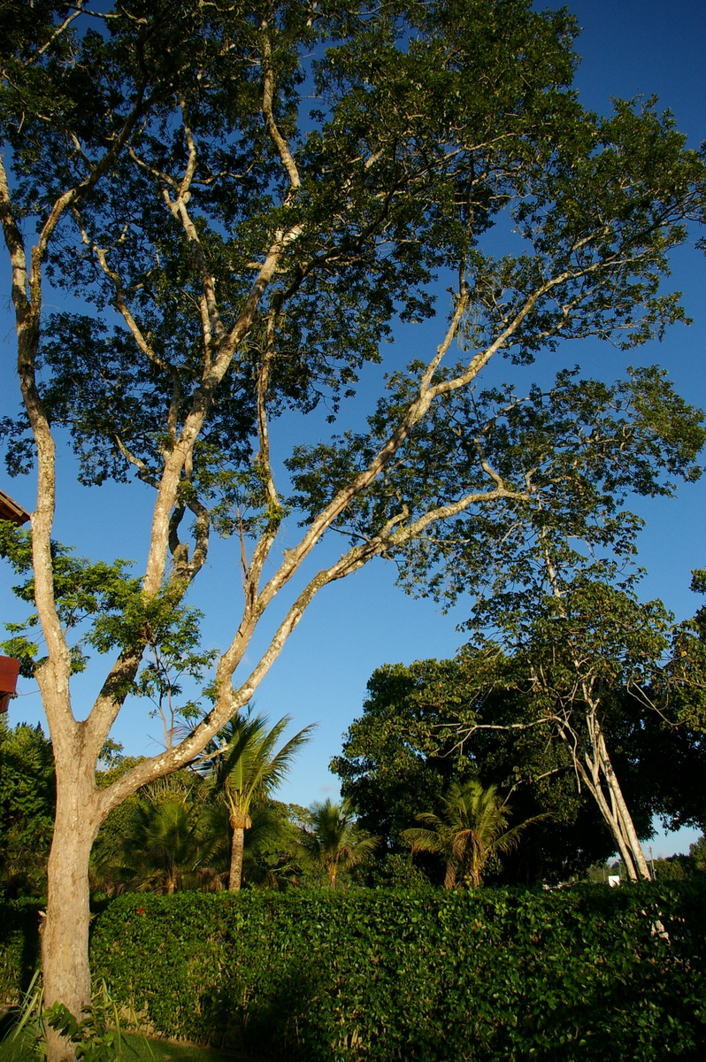 Sucupira, native brazilian tree. image is taken in Pernambuco, northeast of Brazil.